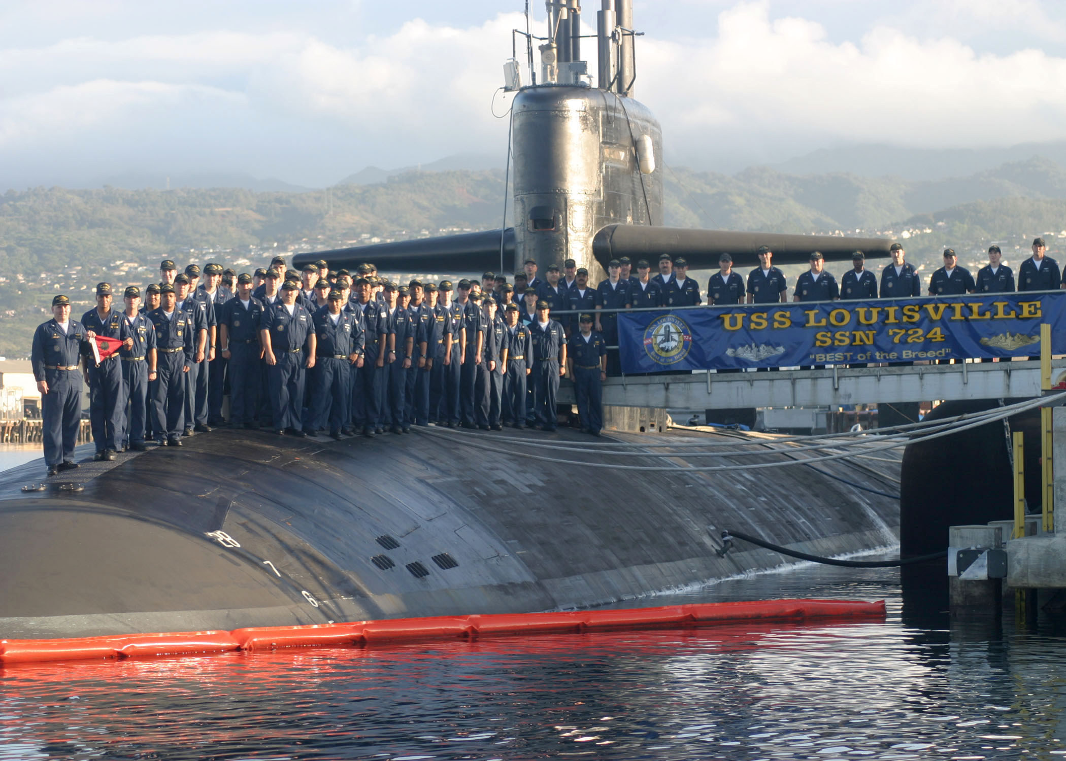 Pearl Harbor, Hawaii (Jan. 26, 2004) - The crew assigned to the Los Angeles-class attack submarine USS Louisville (SSN 724) poses for a photo after receiving the Battle “E” award. The Battle "E" award recognizes sustained superior performance in all areas of combat readiness. As part of the competition, ships compete for command excellence in four combat areas: maritime warfare, engineering/survivability, command and control, and logistics management. To receive the nod for battle efficiency, a ship must excel in all four areas. U.S. Navy photo by Journalist 3rd Class Corwin M. Colbert. (RELEASED)